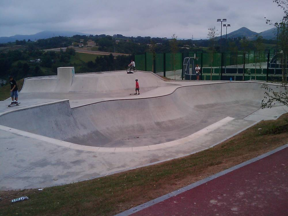 Skatepark in Donostia